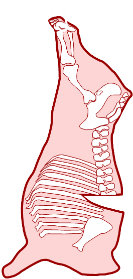 BeefCarcass